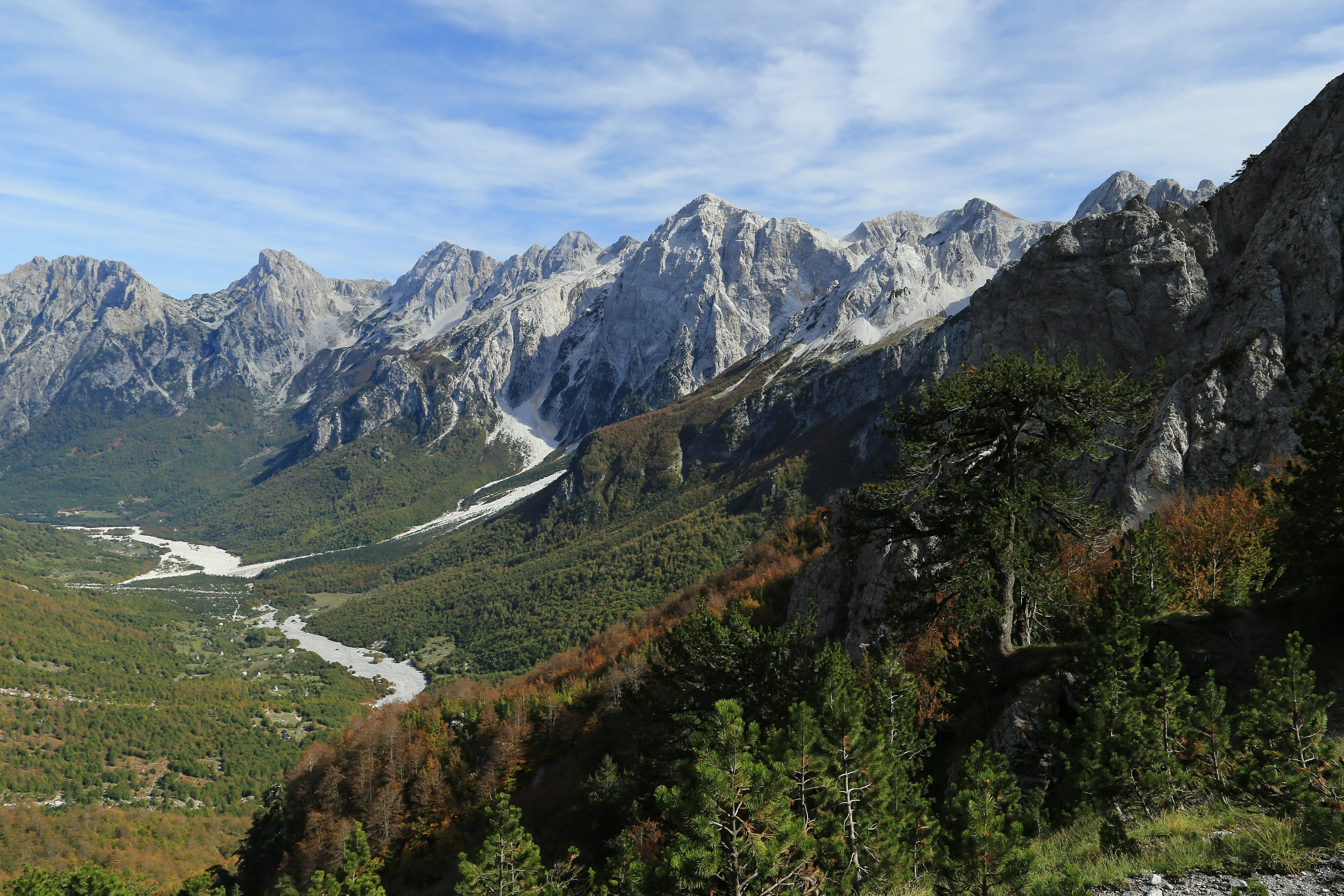 Photo from the Valbonë Valley National Park The Qafa e Valbonës, or Valbona pass in Albania connects the town of Theth, located at Theth National Park in a valley formed by the Shalë river with the town of Valbonë in Valbonë Valley National Park. This photograph was taken in October 2013 on the Valbona side at about 2/3 of the ascent to the top of the pass. It shows the mountains surrounding Maja Grykat e Hapëta, which is one of the highest mountains of all of Albania.